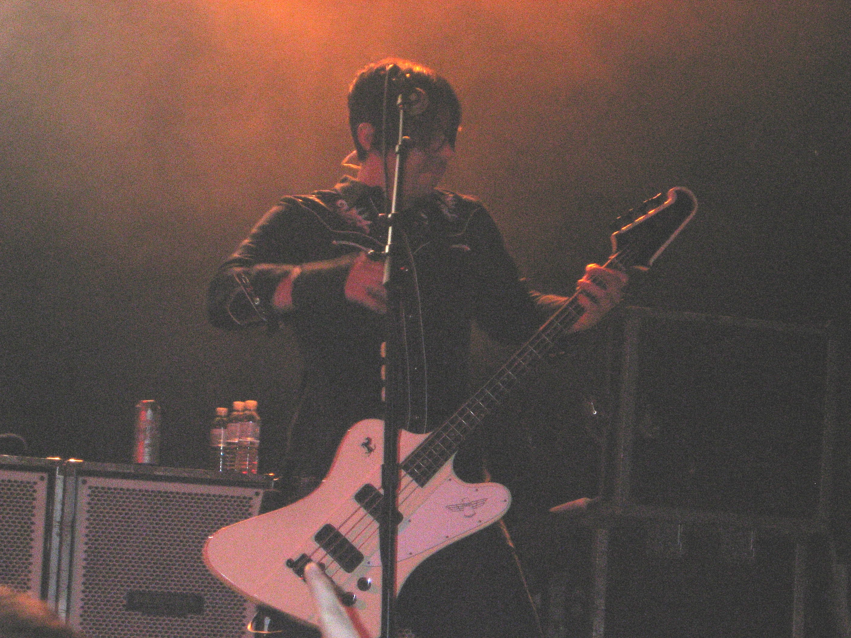 Chevelle bassist Dean Bernardini, live in Cleveland 4-12-07